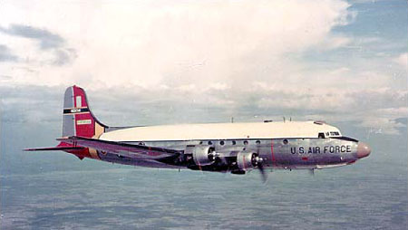 A U.S. Air Force Douglas SC-54D Skymaster search and rescue plane in flight. In 1953, the USAF Air Rescue Service adopted the SC-54D, a modified C-54, which could carry four MA-1 droppable rescue kits. Each kit contained a 40-person inflatable life raft that could be dropped more safely than the rigid boats used by the SC-17 and SC-29. 28 C-54s were modified by Convair.